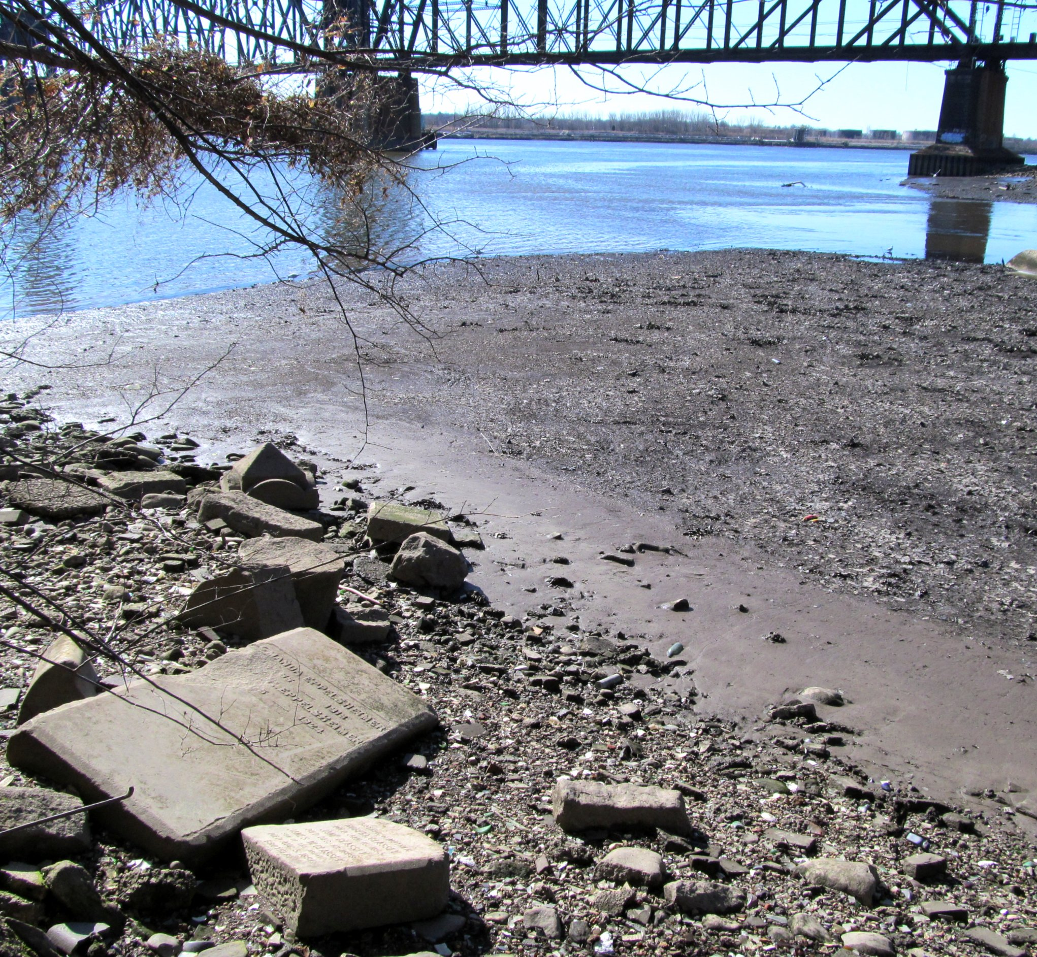 The remains of monument cemetery, dumped on the banks of the Delaware river, Bridesburg, Philadelphia. On the broken tombstone, one can read the inscription: Amanda EPPELSHEIMER 1855 (could be 1865?) - 1918 [first name missing] EPPELSHEIMER 18[...]5 (6?) - 1924